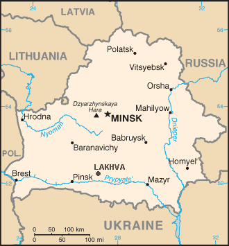 Locator map of Lakhva, Belarus